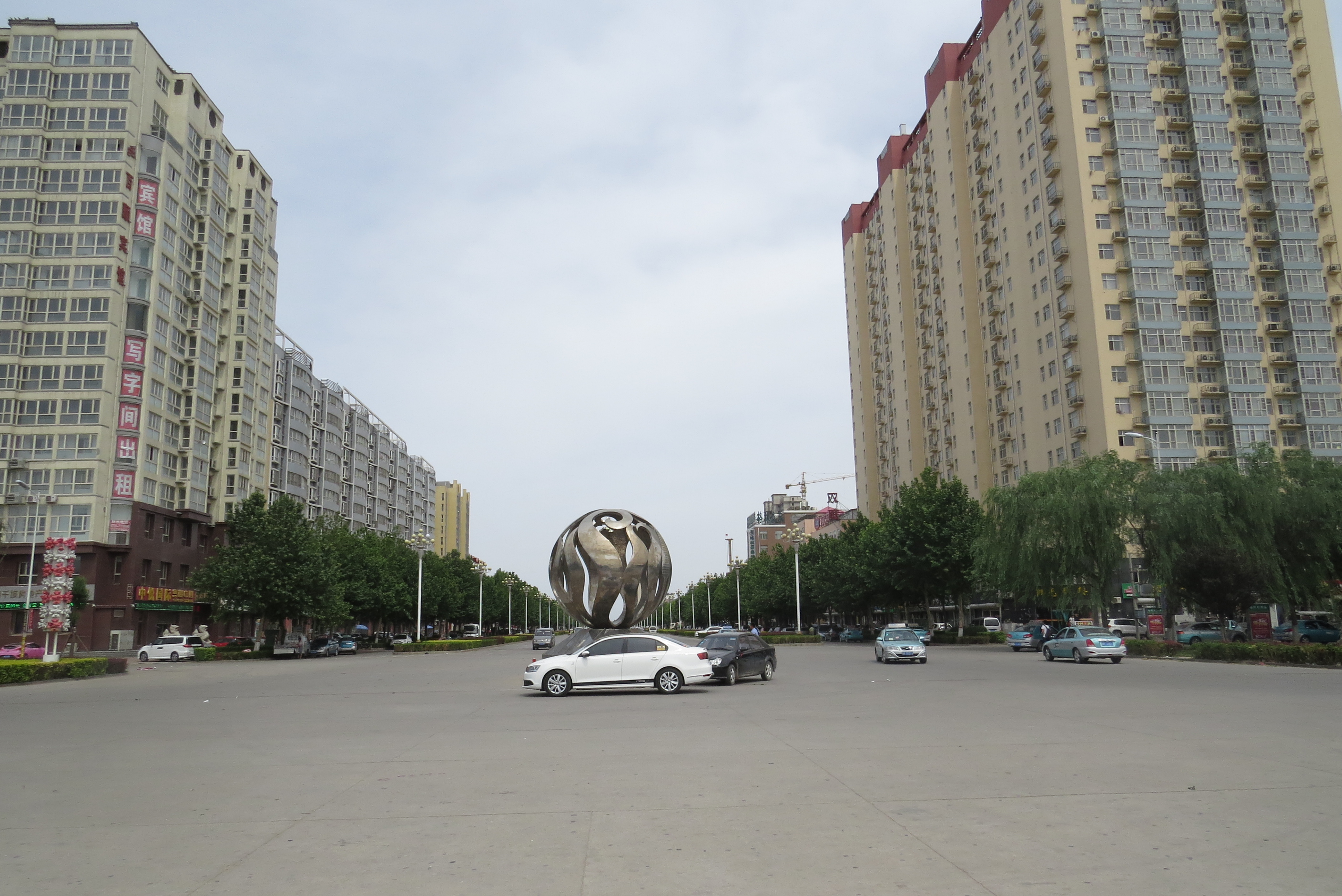 Seen from the station square.